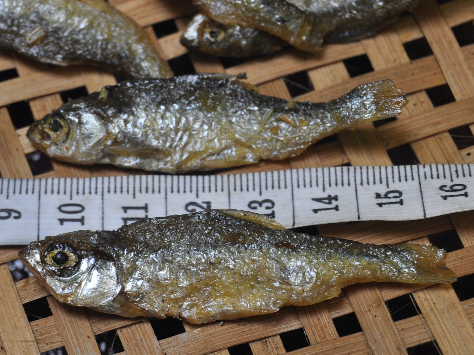 Bilis (Mystacoleucus padangensis); dried fish, bought from local market at Padang, West Sumatra. Specimens' close up.